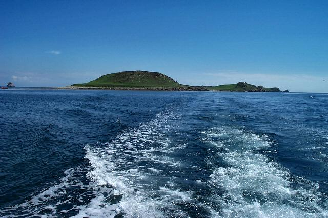 Great Ganilly, Scilly. This is one of the Eastern Isles.